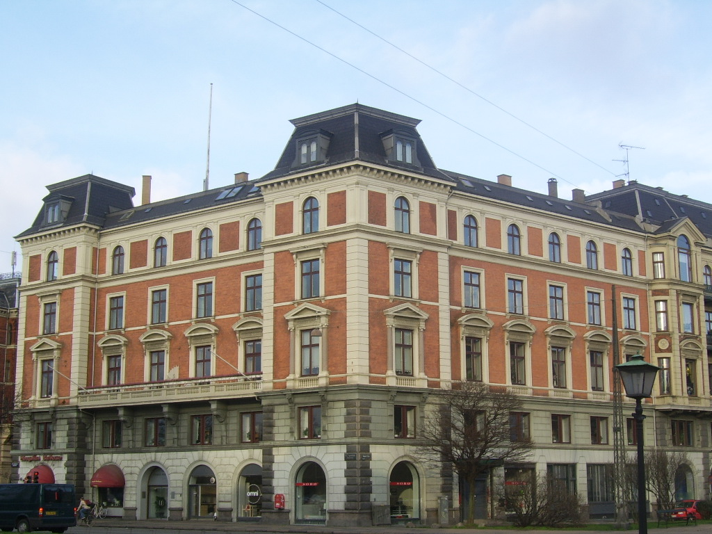 Holckenhus in Copenhagen.